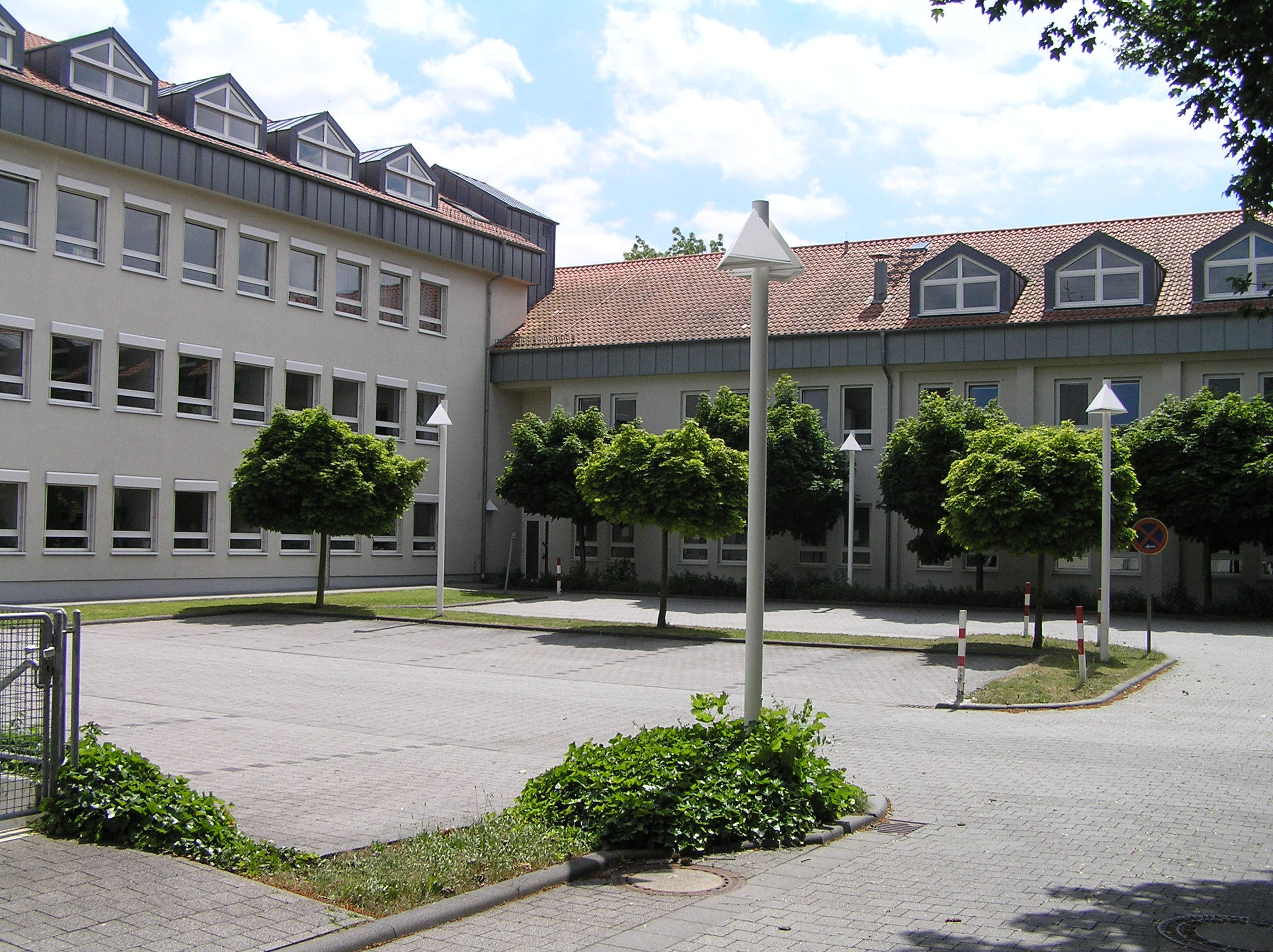 Courthouse in Bad Homburg vor der Höhe, Hesse, Germany